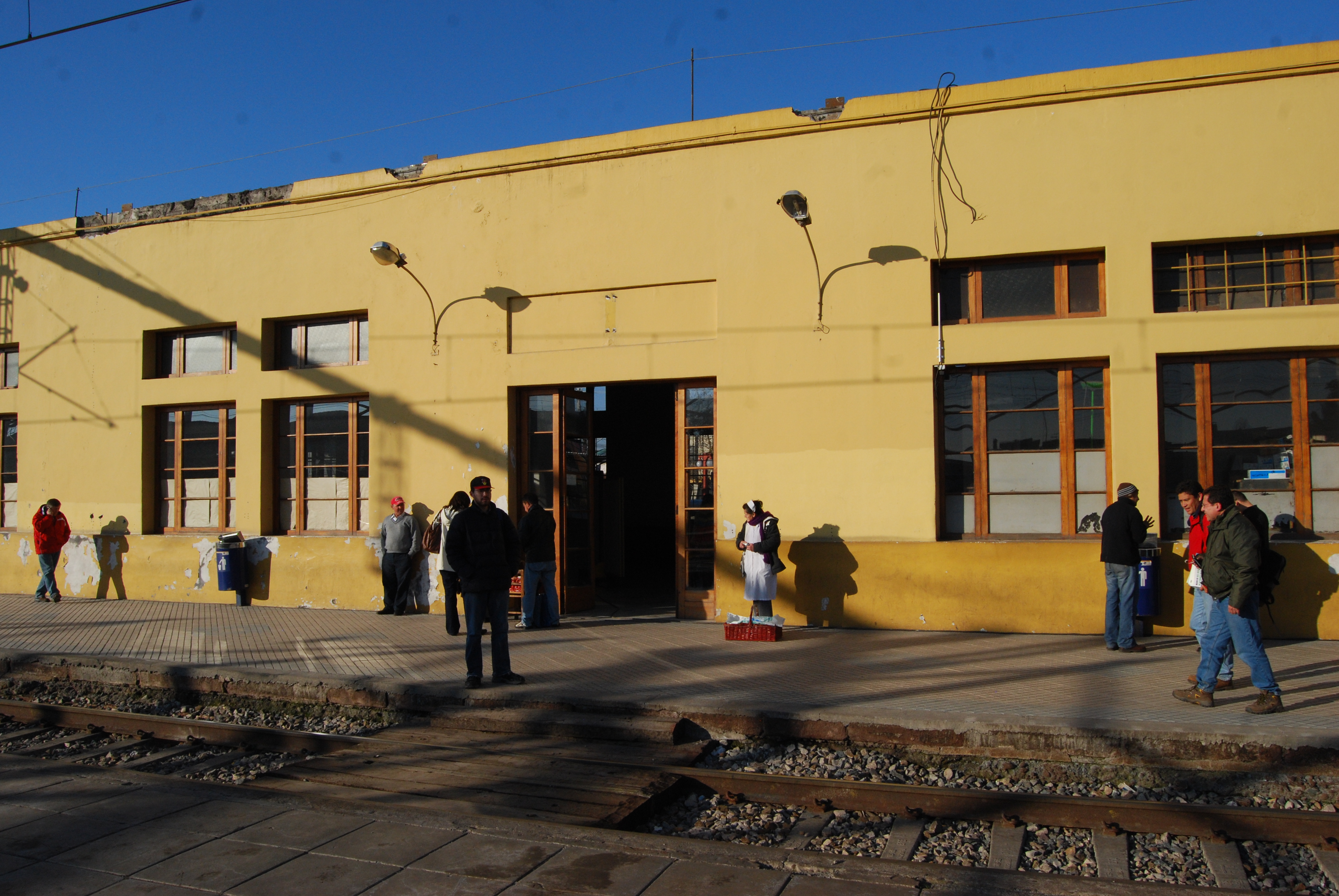 Curicó Train Station